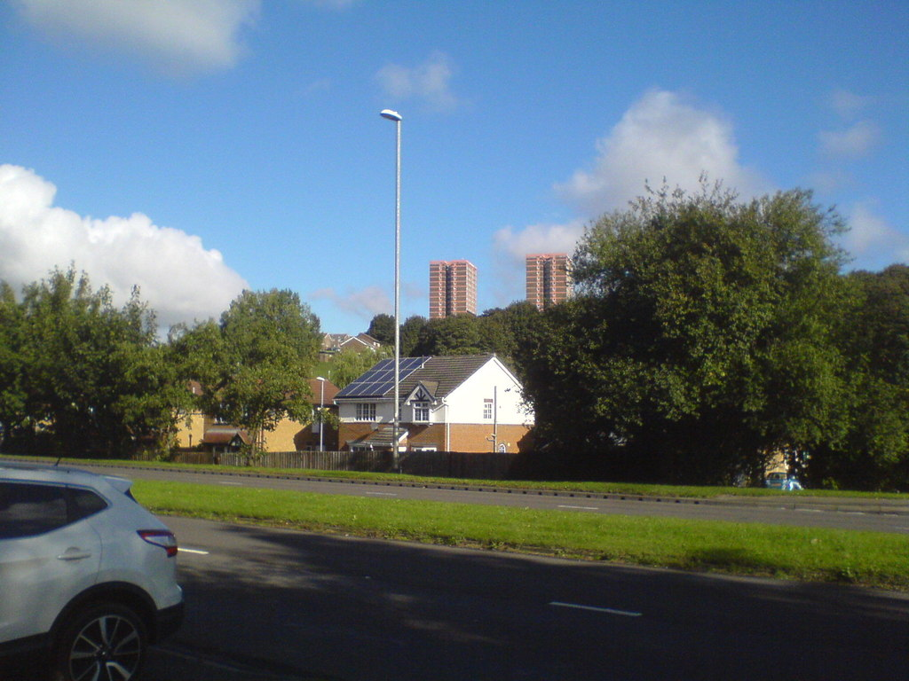 Gamble Hill from Ring Road, Farnley